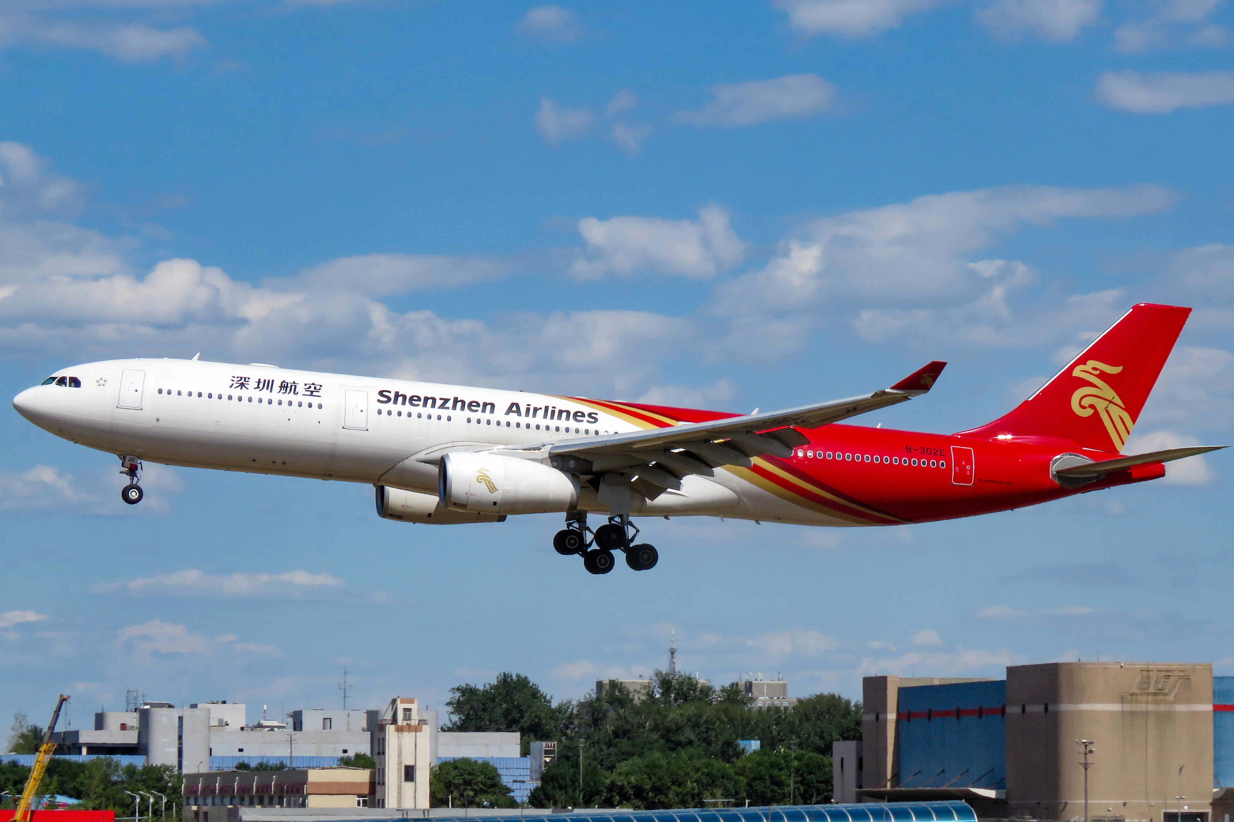 Shenzhen 9105 from Shenzhen.